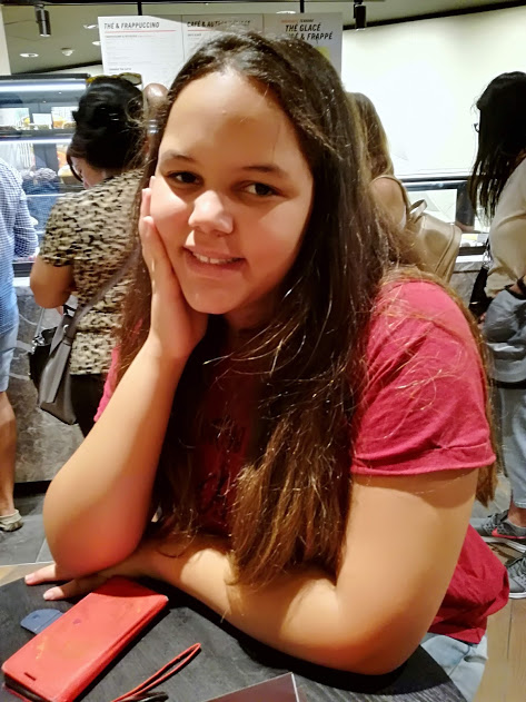 Nina Krivochein writer in 2018